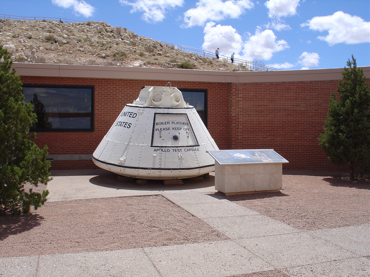 Apollo Test Capsule "Boilerplate-29" at Barringer Crater.